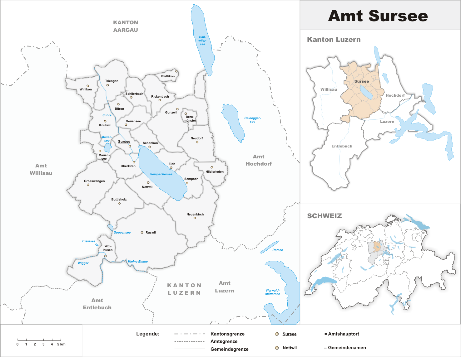 Municipalities in the district of Sursee